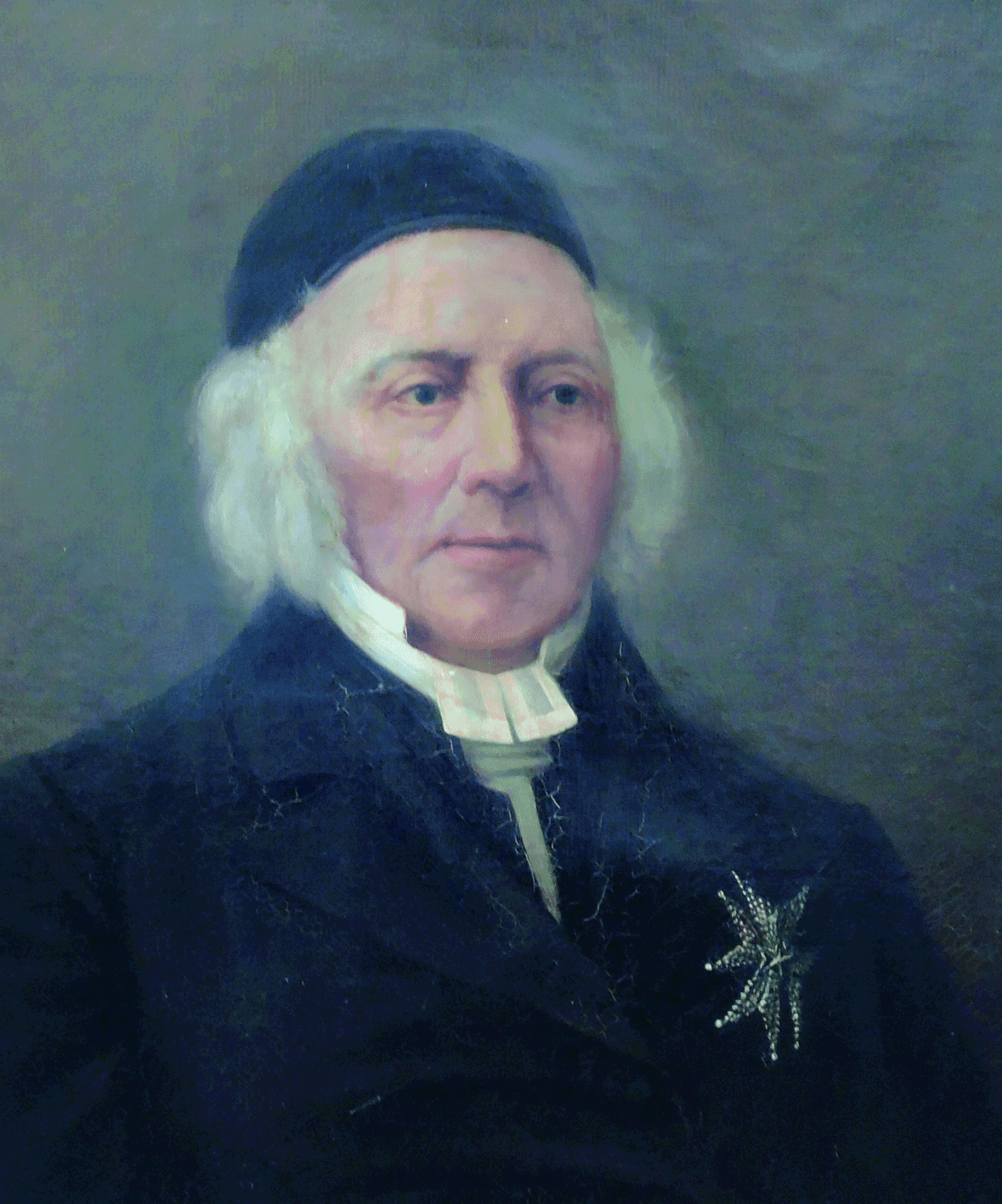 Swedish vicar, historian, member of the Riksdag and poet Anders Abraham Grafström (1790-1870)